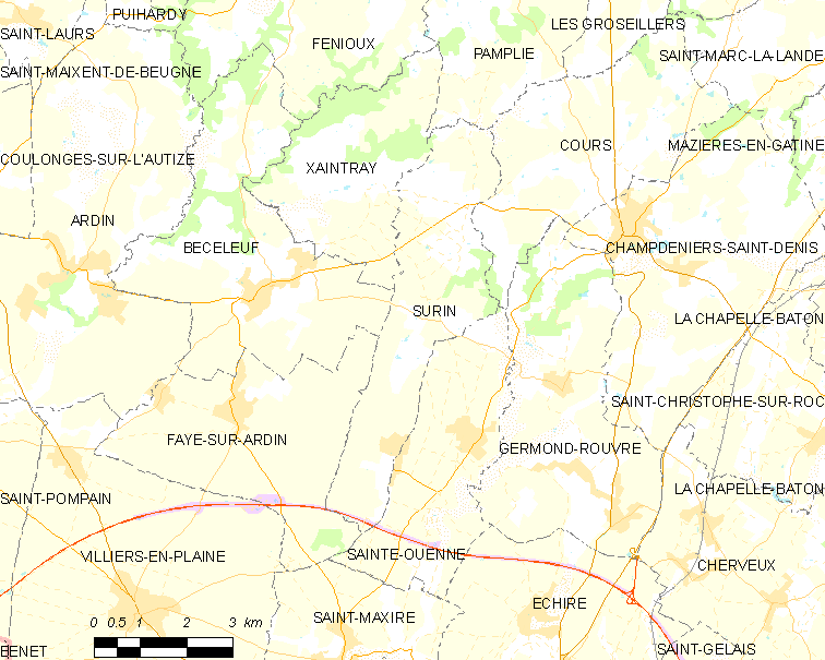 Map of French municipality Surin